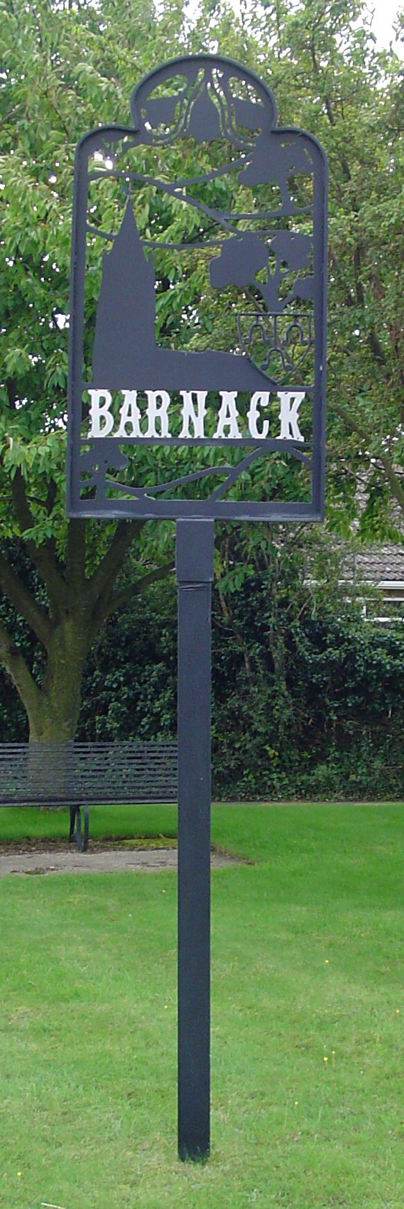 Signpost in Barnack